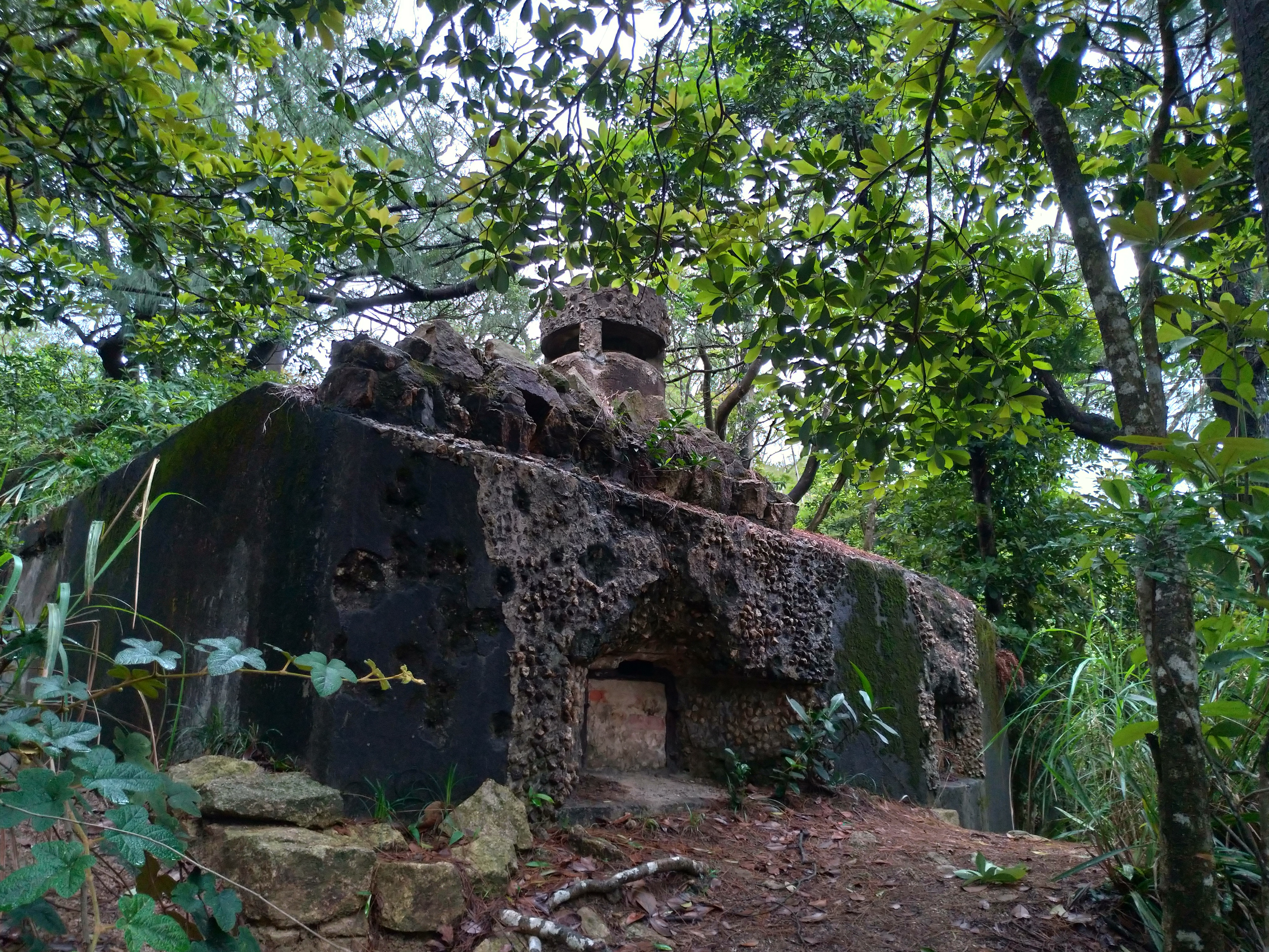 The pillbox (JLO1, Jardine's Lookout 1) at Wong Nai Chung Gap on Hong Kong Island.